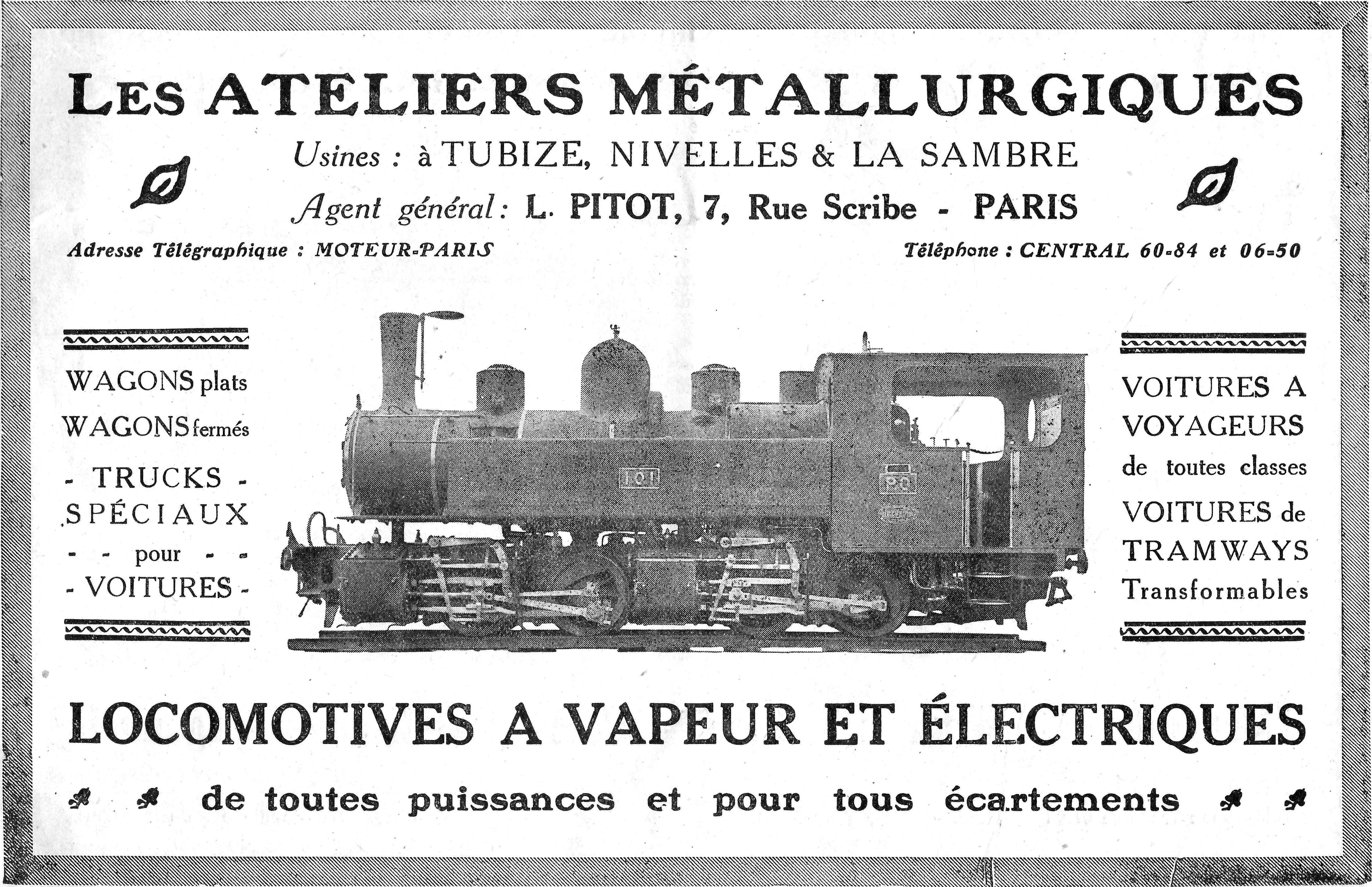 Advertisement for "Les Ateliers Métallurgiques a Tubize, Nivelles et La Sambre" on the French railway periodical "Les Chemins de Fer et Les Tramways" showing a steam engine of the PO railway.